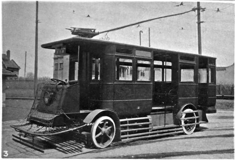 Shanghai Electric Construction Company, Ltd. 3. Rail-less car (trolleybus).